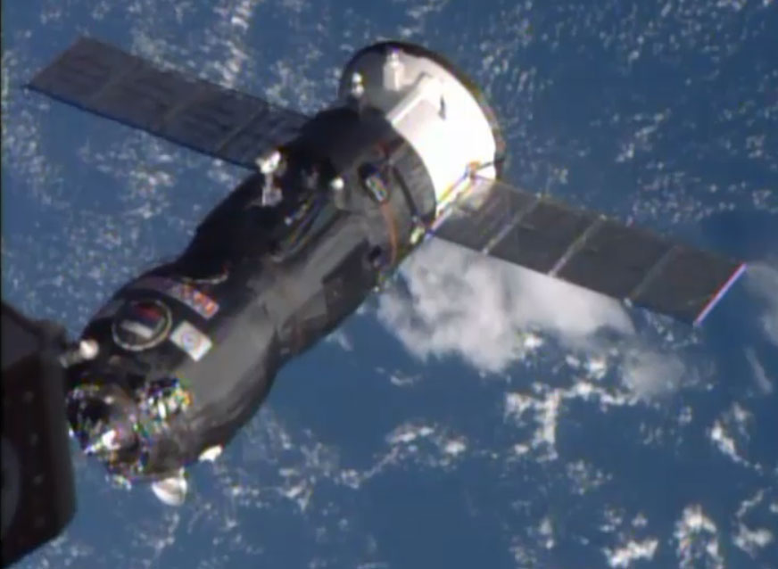 Traveling about 261 miles over the Atlantic Ocean, the unpiloted ISS Progress 57 Russian cargo ship docked at 9:08 a.m. EDT to the Pirs Docking Compartment of the International Space Station. The craft is delivering almost three tons of food, fuel and supplies, including 1,940 pounds of propellant; 48 pounds of oxygen; 57 pounds of air; 926 pounds of water; and 2,822 pounds of spare parts, supplies and experiment hardware for the six members of the Expedition 41 crew currently living and working in space. Progress 57 is scheduled to remain docked to Pirs for the next six months.